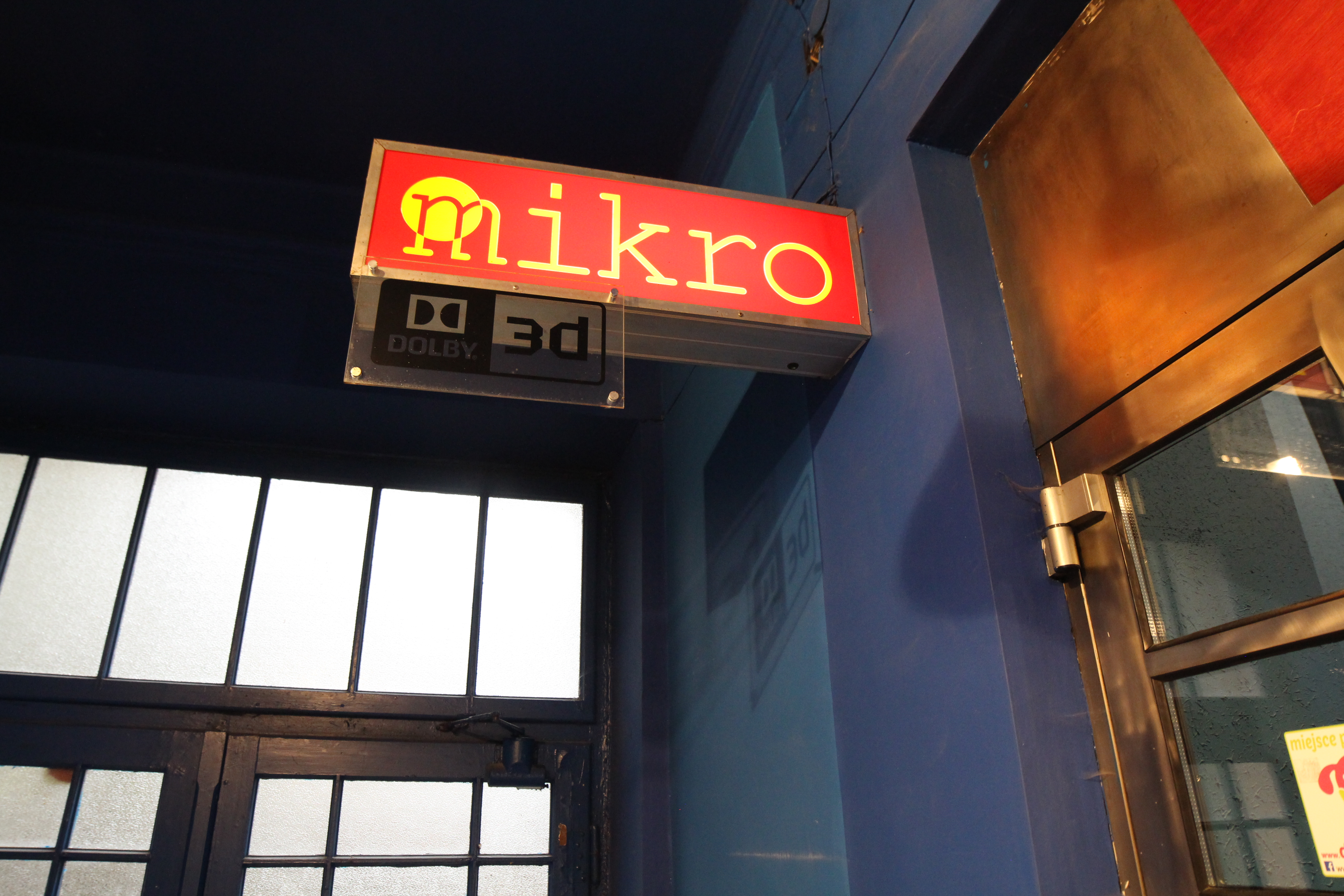 Kino Mikro, studio cinema in Kraków, Poland, at Lea Street 5. It has been active since 1959, since April 7, 1984 as the Mikro & Mikroffala Film Club.